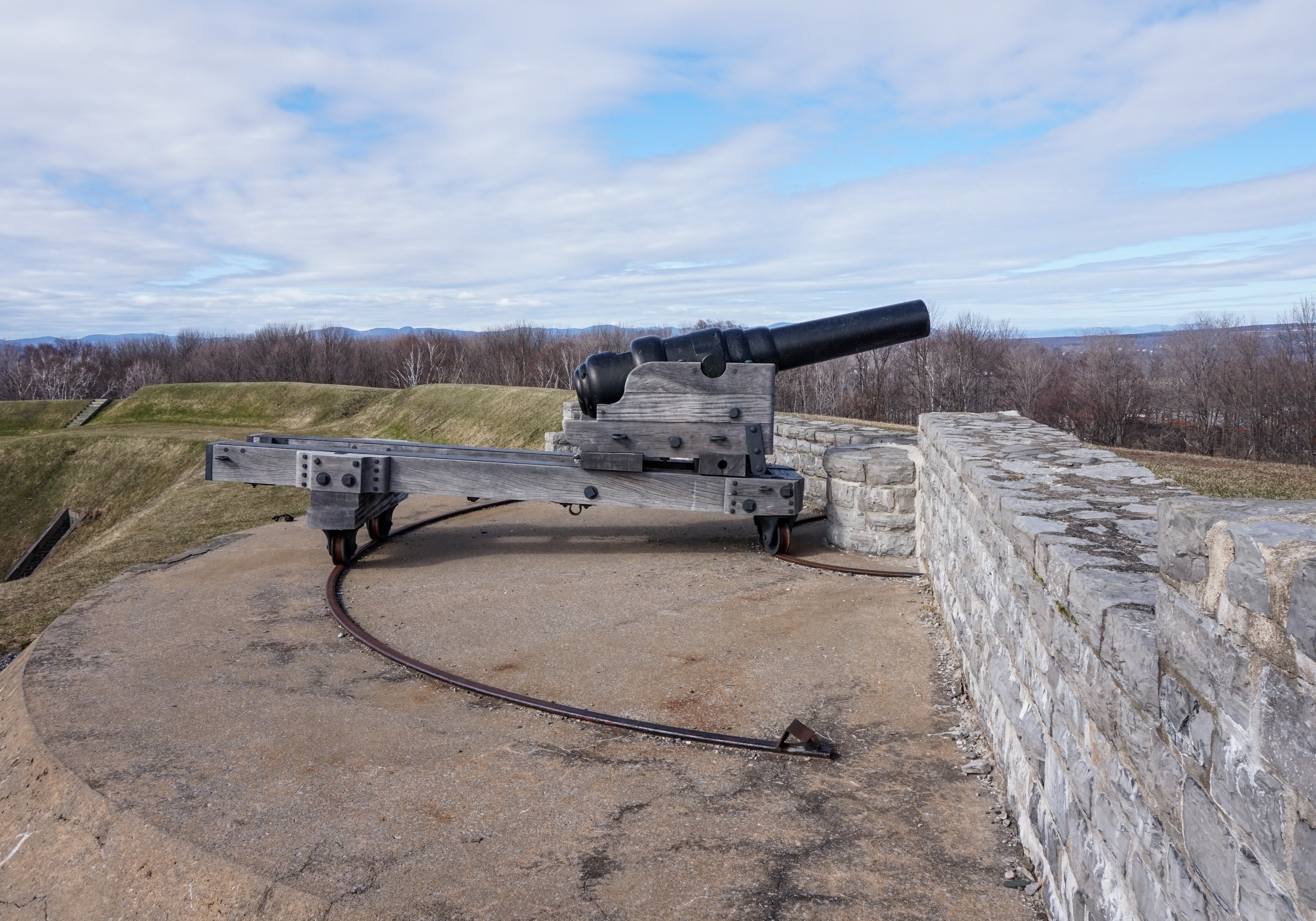 RBL 7 inch Armstrong gun in Fort No. 1, Lévis, Québec, Canada